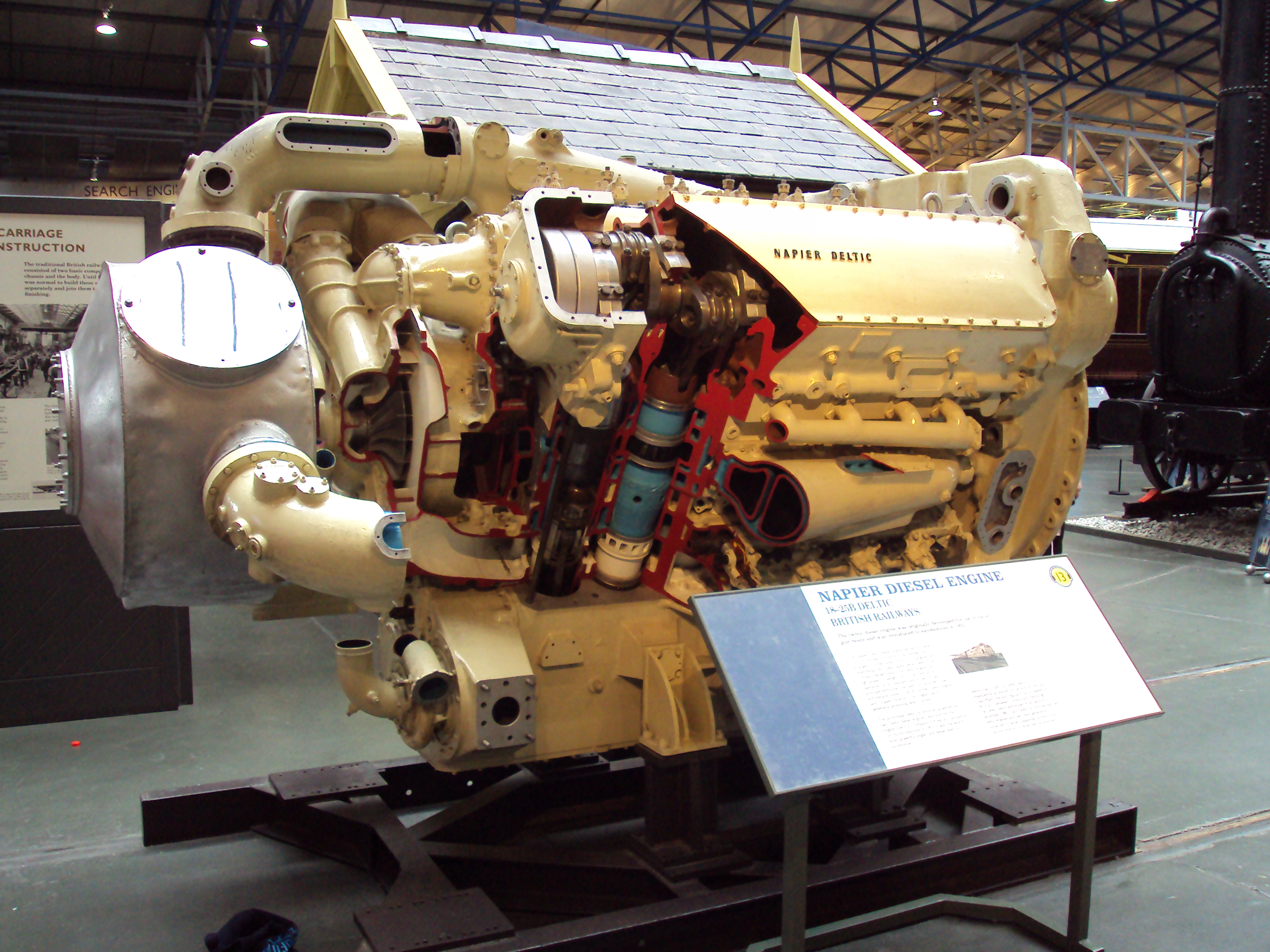 A Napier Deltic Diesel engine. Photo taken at the National Railway Museum, York.